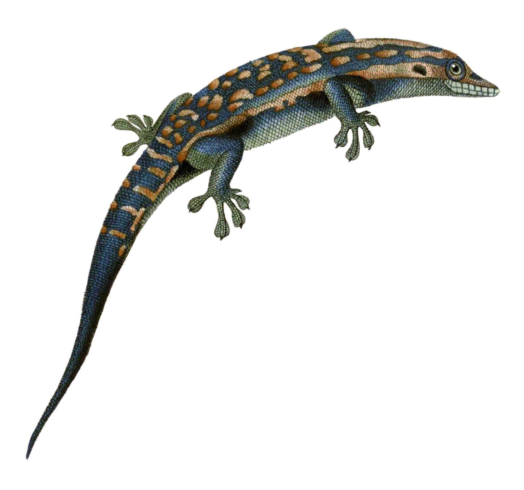 Platydactylus cepedianus = Phelsuma cepediana (Blue-tailed day gecko)